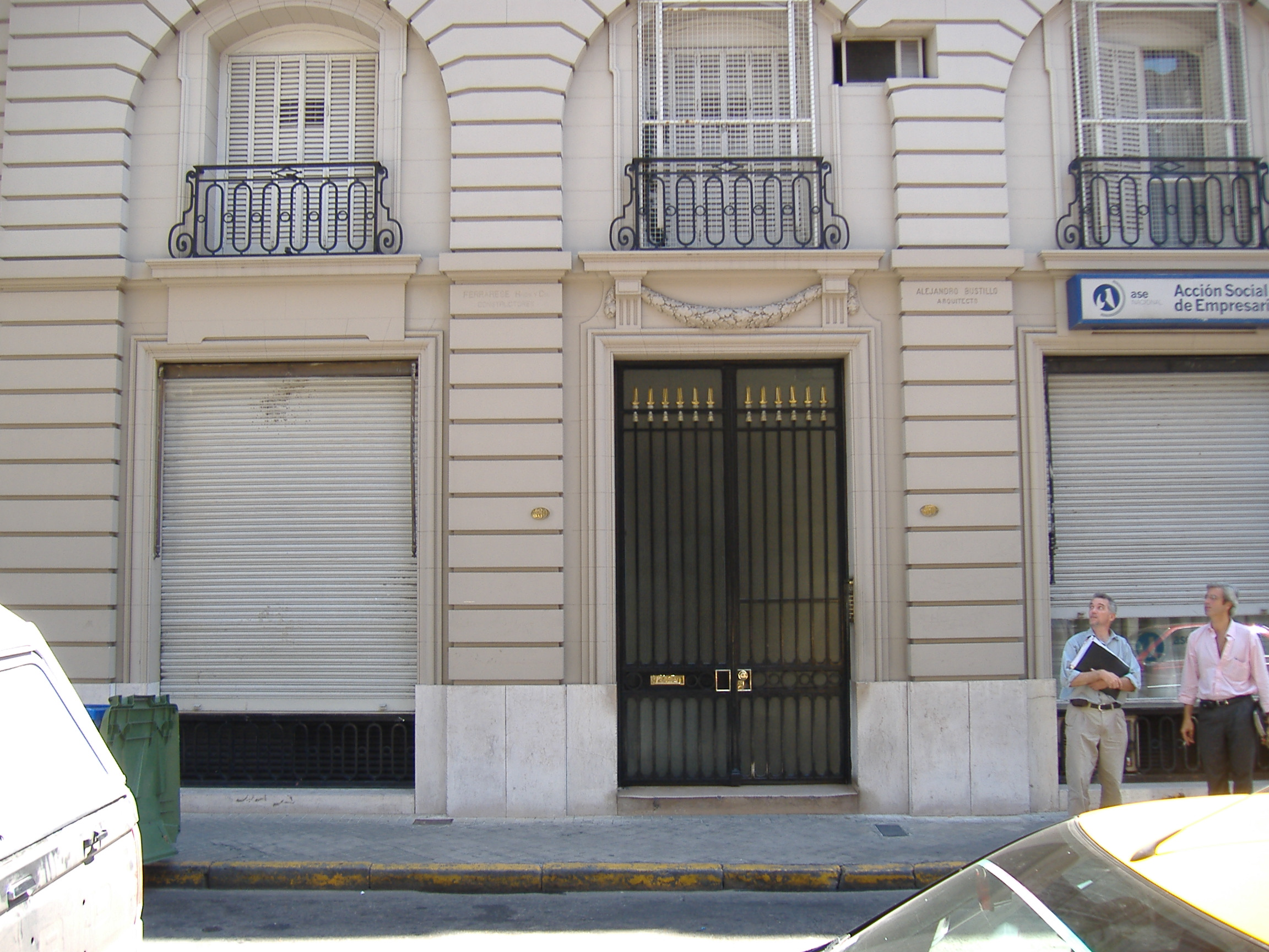 The building where Che Guevara lived during his first years, on 480 Entre Ríos St., Rosario, Argentina (his city of birth). This picture was taken by Pablo D. Flores on 7 March 2006.